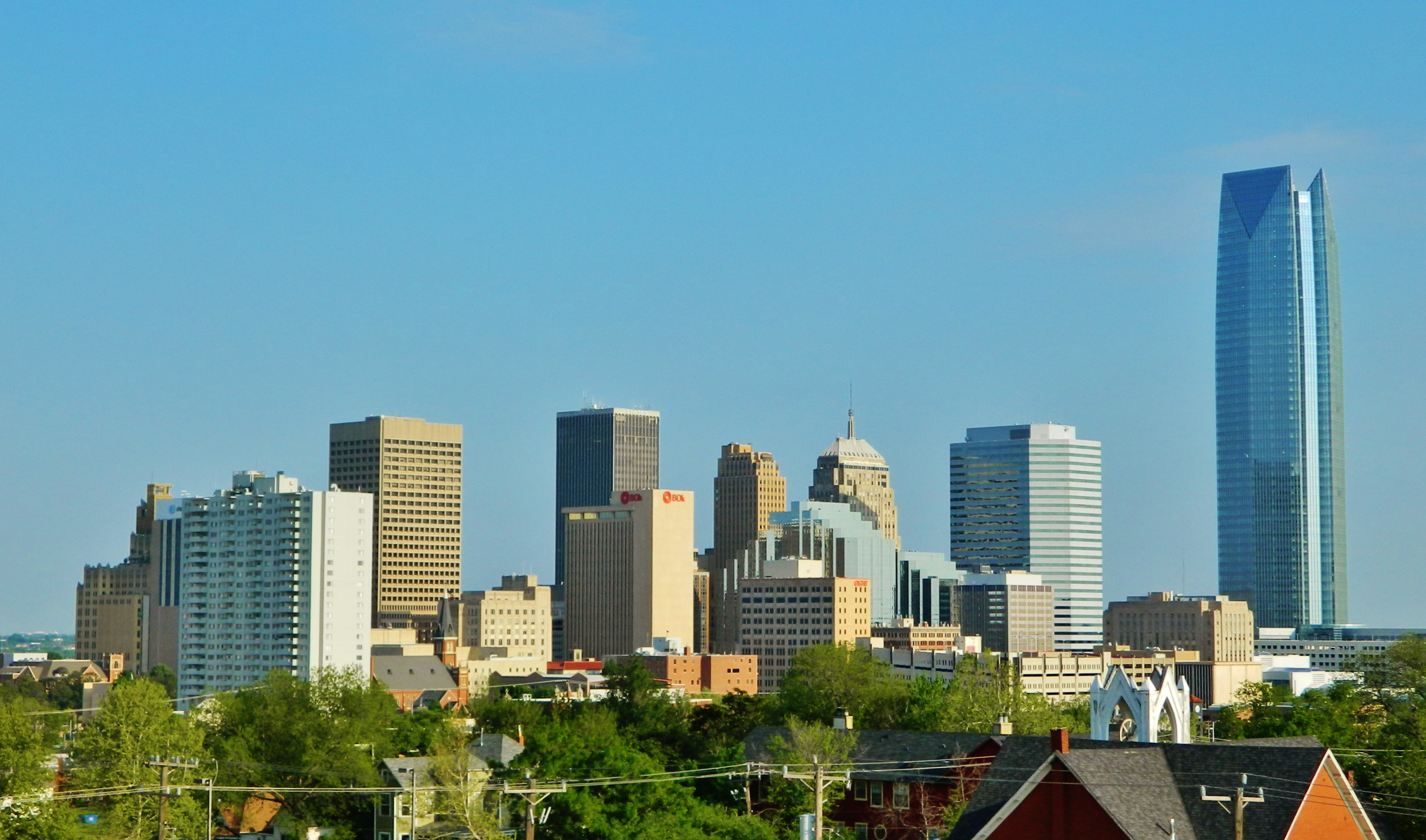 The Central Business District of downtown Oklahoma City.